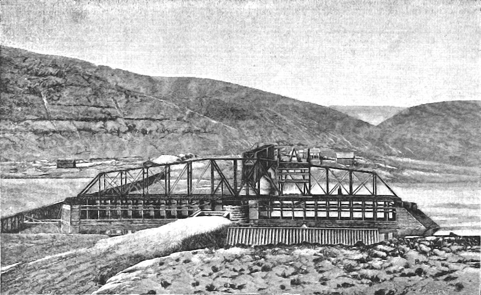 Riparia Bridge over the Snake River, build 1889 by George S. Morison for the Oregon Railway and Navigation Company.